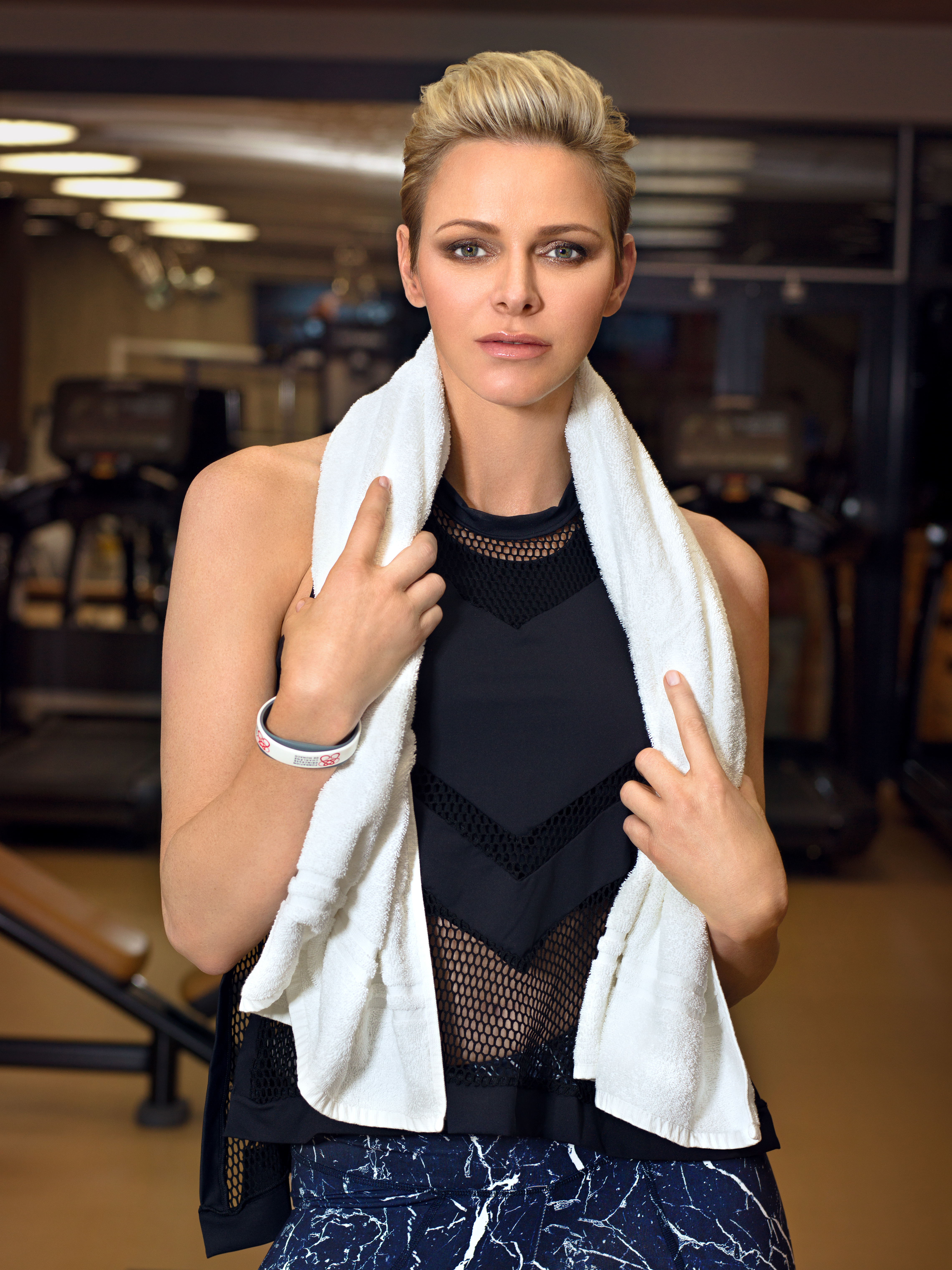 Charlene, Princess of Monaco, poses for the cover of MyWorldClass magazine.